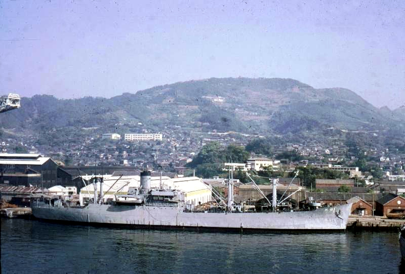 The U.S. general stores issue ship USS Castor (AKS-1) at Sasebo, Japan, between 15 and 18 April 1967.